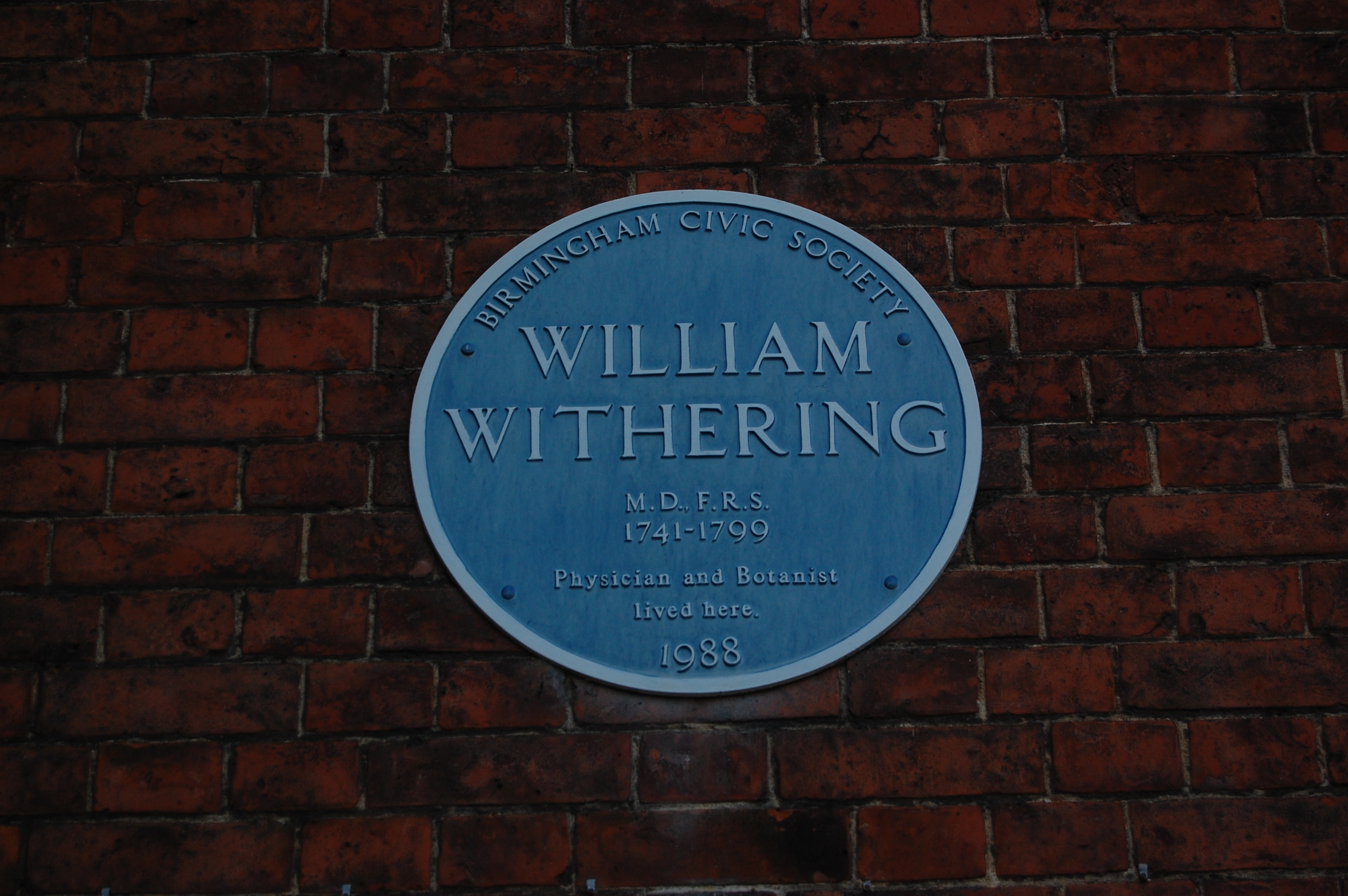 Edgbaston Hall, Birmingham, England.